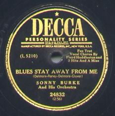 Blues Stay away from me - Sonny Burke